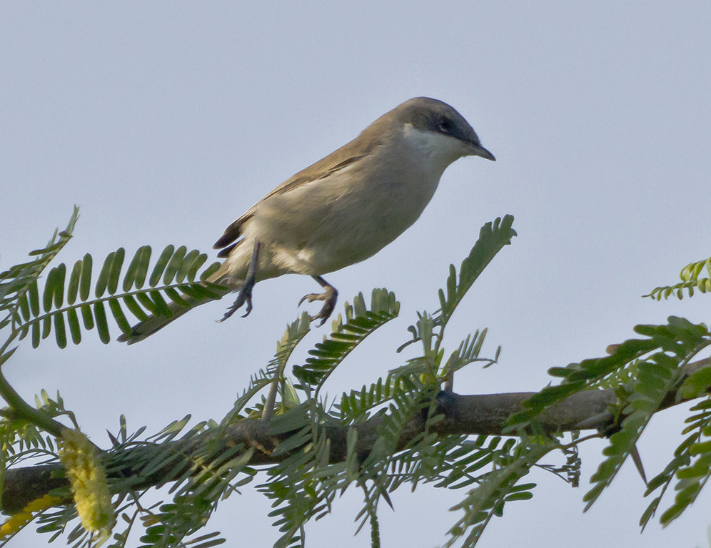 Feeding